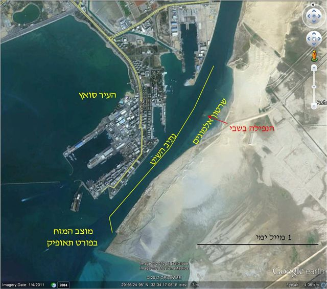 Map of the southern entrance to the Suez Canal with marked patrol lines for the flag carrying boats in July 1967